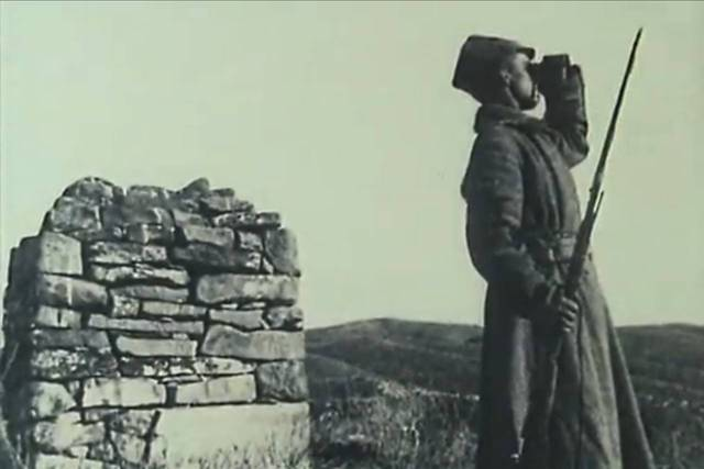 Soviet border guard in Turkestane